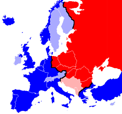 Division of Europe by the Iron Curtain